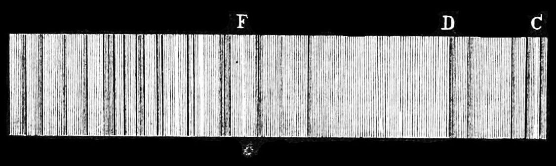 Coronal borealis variable star spectrum